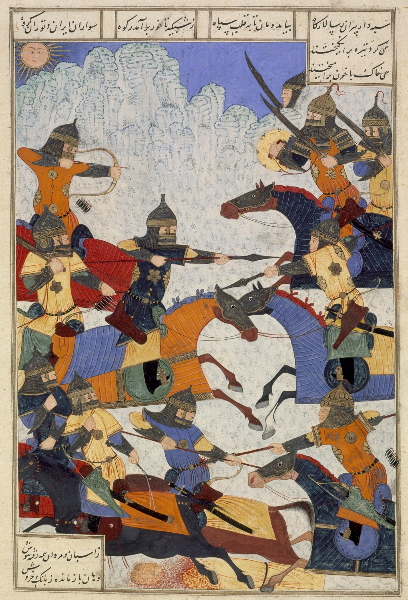 Iran, Gilan, 1494/A.H. 899 Manuscripts Ink, opaque watercolor, and gold on paper 9 1/2 x 6 in. (24.13 x 15.24 cm) The Nasli M. Heeramaneck Collection, gift of Joan Palevsky, by exchange (M.75.24) Islamic Art Currently on public view: Ahmanson Building, floor 4